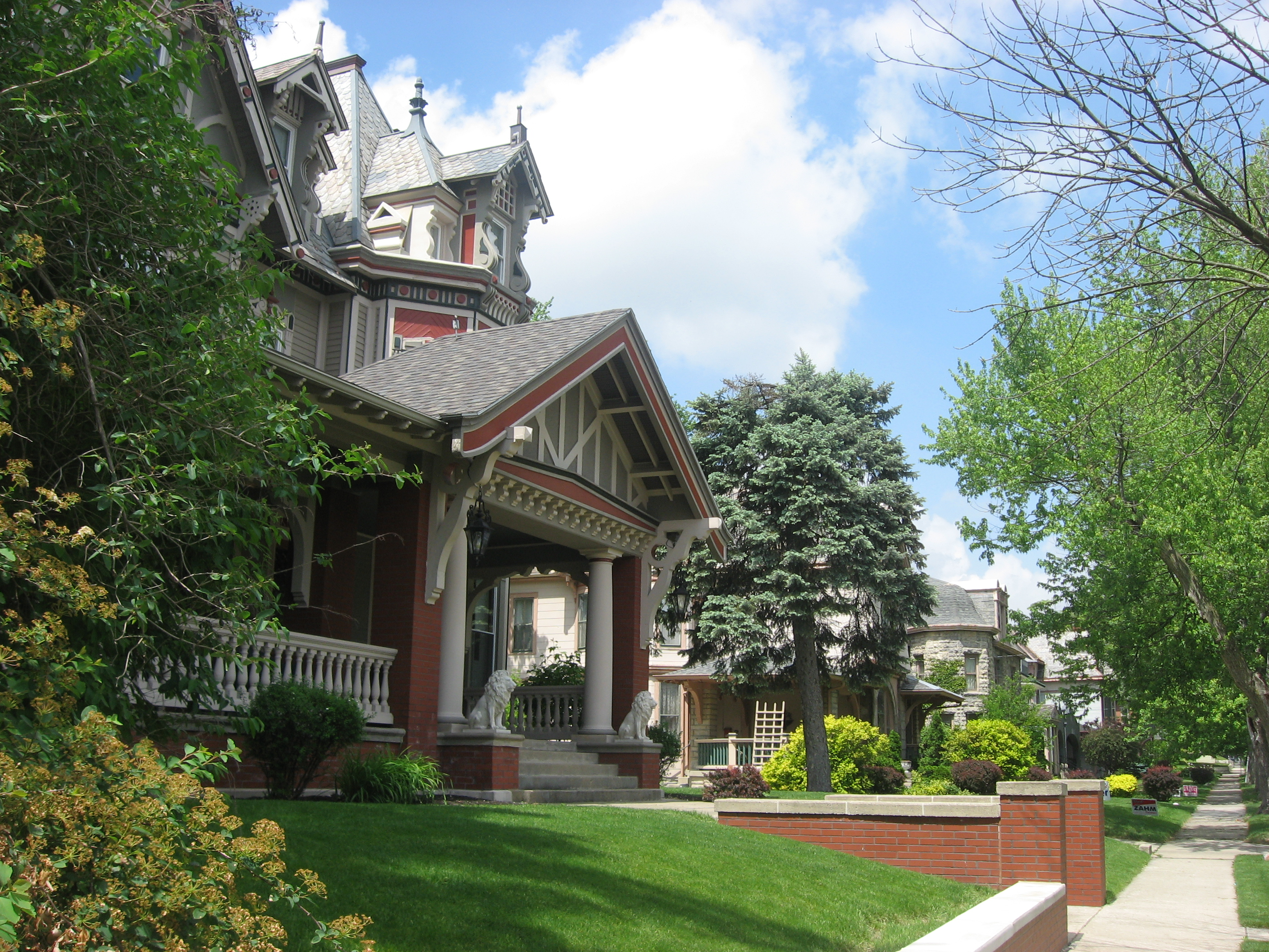 Houses at 1046 (close), 1068 (partly behind tree), and 1110 (distant) N. Jefferson Street (U.S. Route 224) in Huntington, Indiana, United States. Built in 1882, 1890, and 1895 respectively, they are part of the North Jefferson Street Historic District, a historic district that is listed on the National Register of Historic Places.